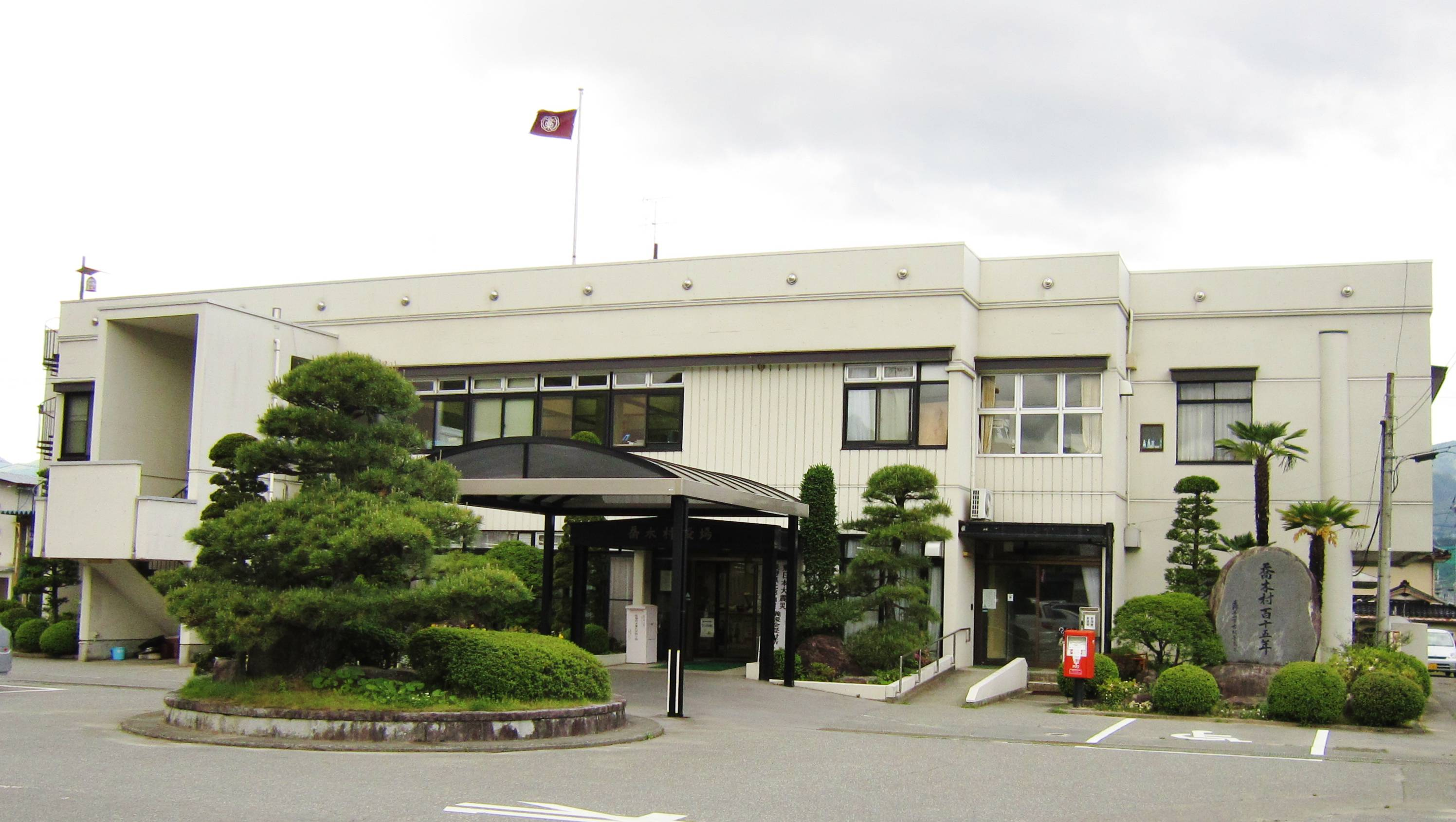 Takagi village office.